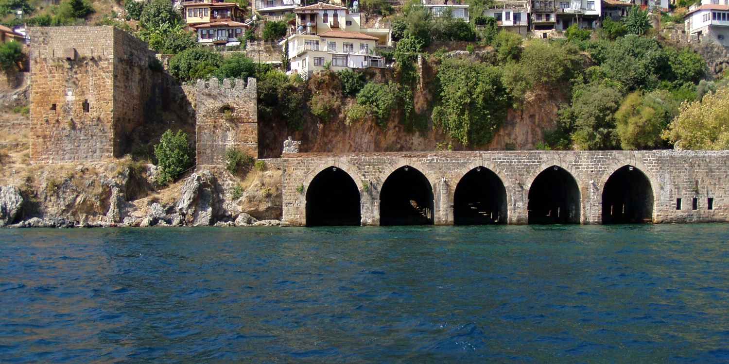 The dockyard viewed from the sea. Its construction started in 1227, six years later than the Sultan's conquest of the city, near Kizilkule and finished in one year. The Side of the dockyard overlooking the sea and having five cells with arches is 56.5 metres long and it is 44 metres in depth. The area selected for the dockyard was planned to have the most sunlight. The statement on the front door of the dockyard has the Sultan Keykubat's armorial bearings and is decorated with badges. The dockyard of Alanya was the first one of Selcuks in the Mediterranean, Alaaddin Keykubat, who had the dockyard of Sinop built before, was given the little of "the Sultan of the two seas" with the opening of the dockyard of Alanya. On one side of the dockyard there is a small mosque, and a guard room on the other. The Seljuk Empire used Alanya as a second capital city in addition to Konya and used the city as a winter residence and made improvements there. Mongol attacks in 1243 and the Invasion of Anatolia by Egyptian Memluks weakened the Seljuk Empire which was divided in 1300, and the region came under the reign of the Karamano?ullar? dynasty. In 1427 Alanya was sold to the Memluk Sultan for five thousand gold pieces, and then in 1471 the city was included within the borders of the Ottoman Empire by Mehmet II The Conqueror.